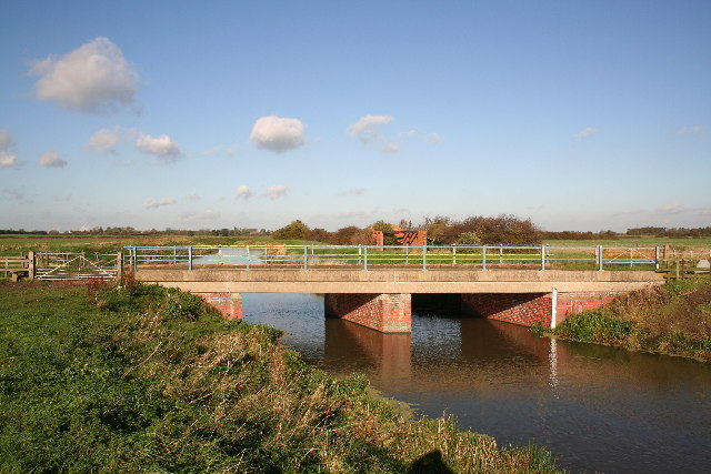 River Till. The River Till and Broxholme Lane Bridge looking north